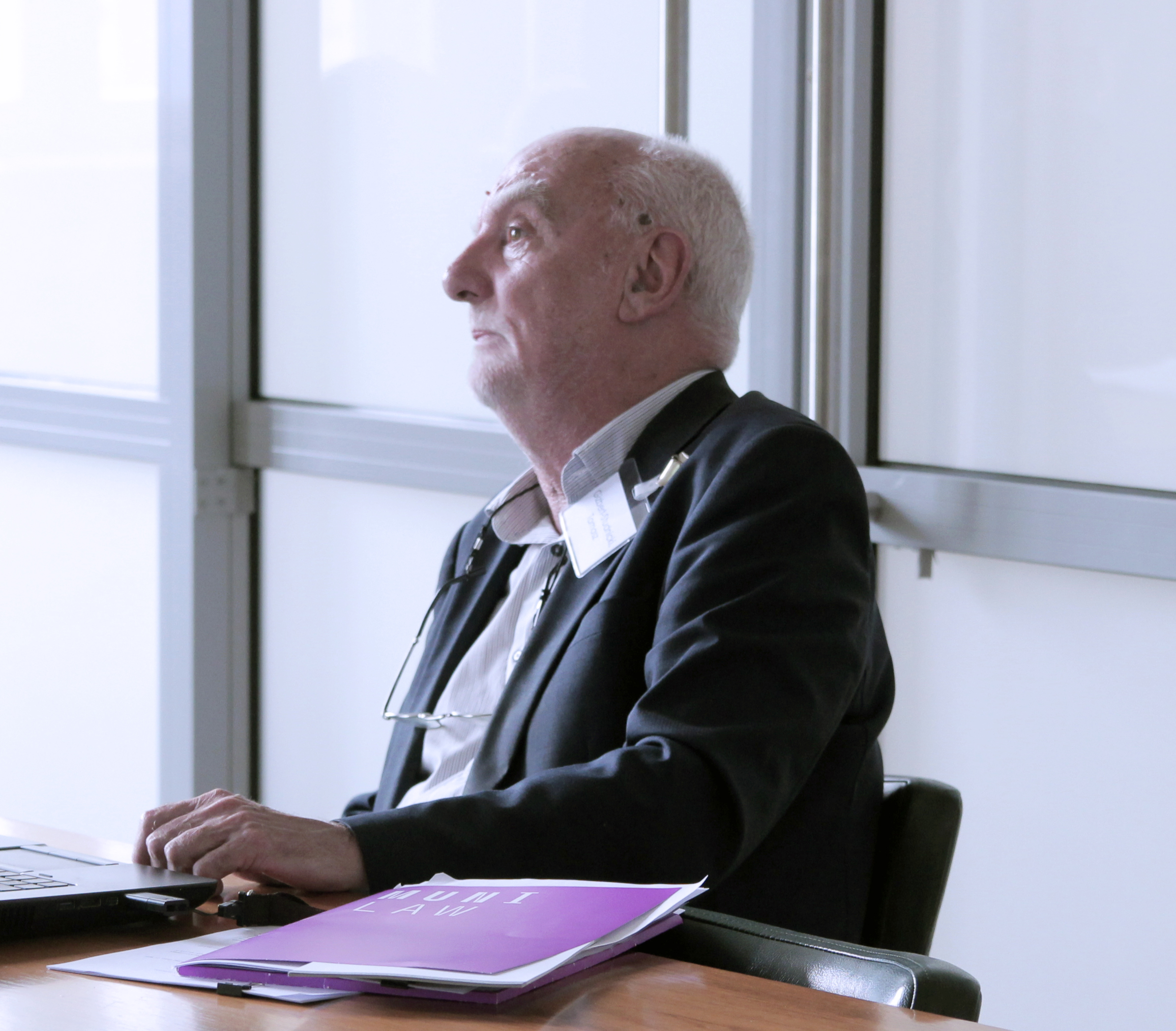 Tomasz Gizbert-Studnicki @ Weyrovy dny pravni teorie 2019